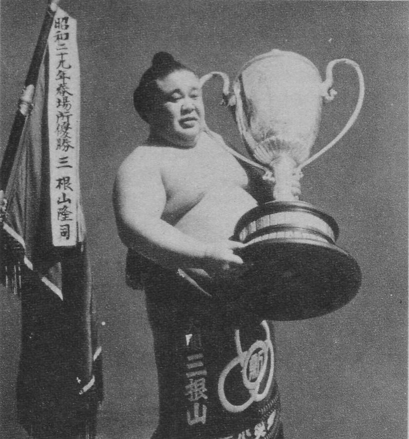 Mitsuneyama Takashi (Mitsuneyama Hōkoku).